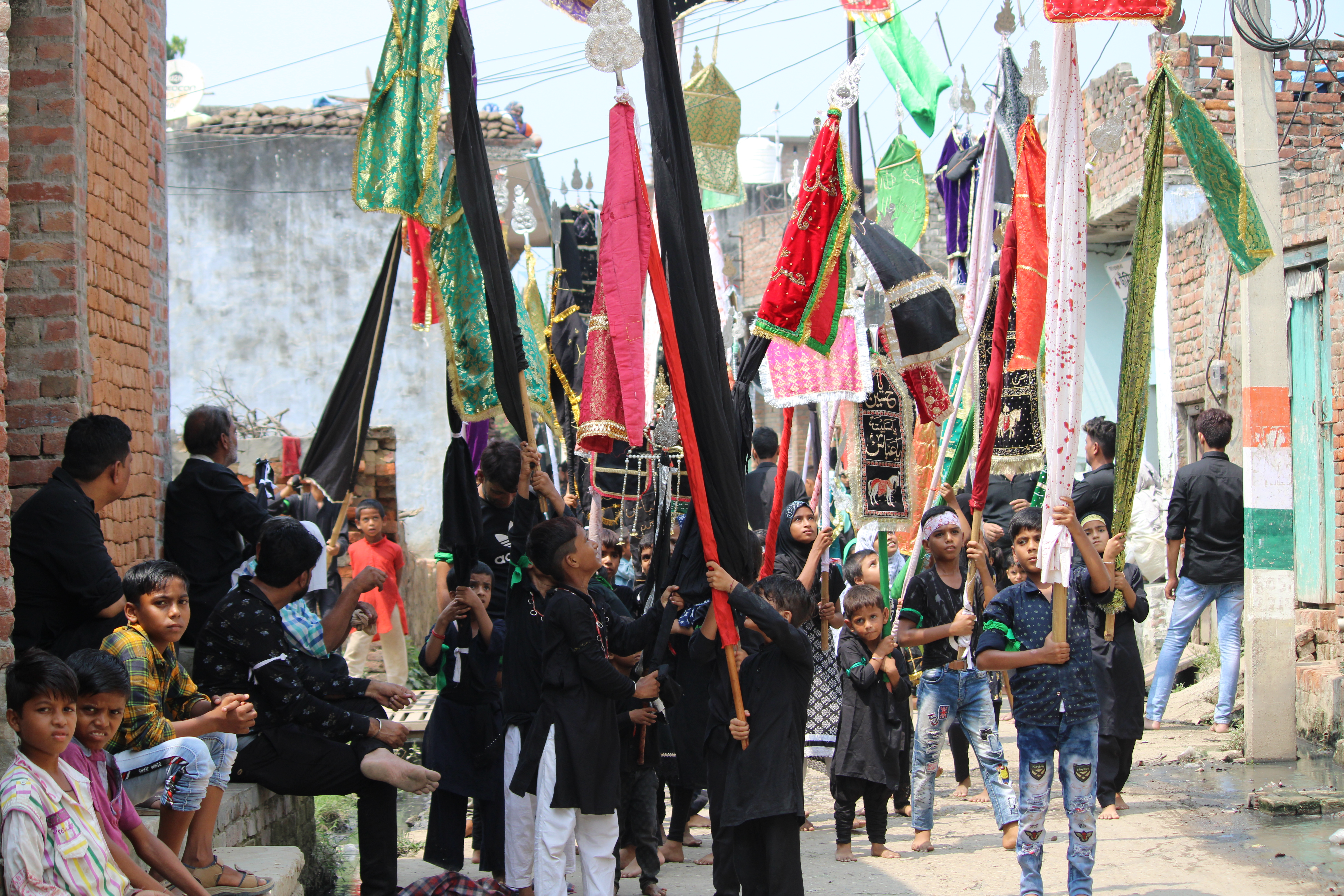 Juloos In Baghra 9th of Mohorram